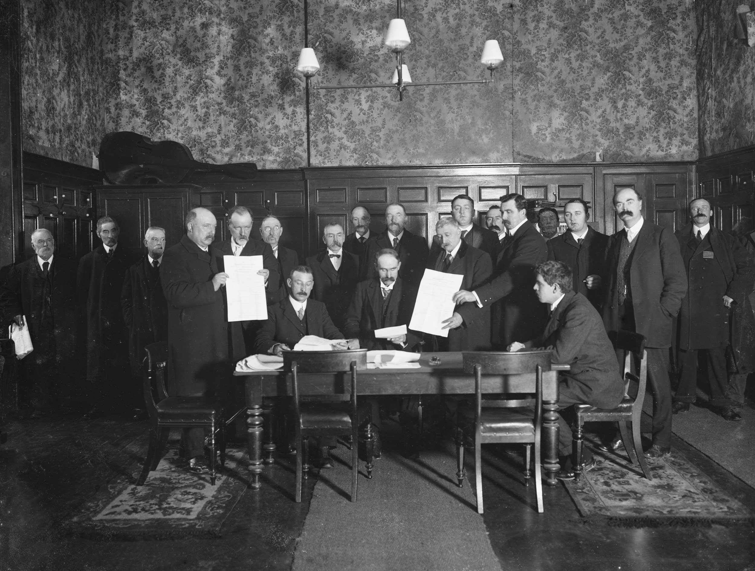 The scene at Waterford Court House when John Redmond, M.P. was nominated (although he is not present in the photo). The second Westminster election in 1910 took place from 3 to 19 December. John Redmond, an adamant opponent of female suffrage, was leader of the Irish Parliamentary Party which took 11% of the seats. This photo shows a great sense of occasion (and a great array of moustaches)! Date: 3 December 1910 NLI Ref.: P_WP_2123